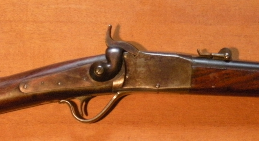 Peabody receiver